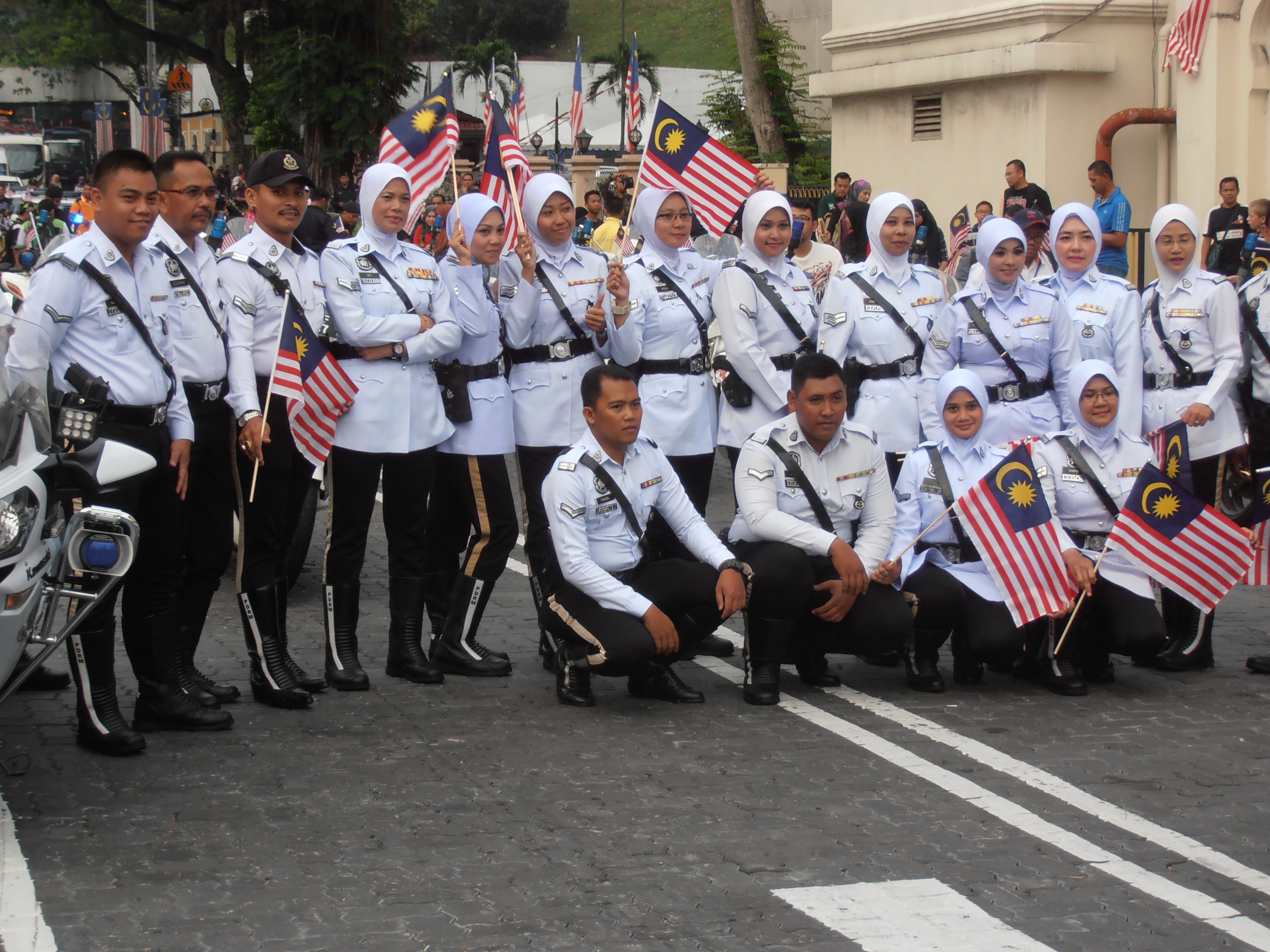 Malaysian traffic cops during 57th National Day Parade of Malaysia at Merdeka Square, Kuala Lumpur.